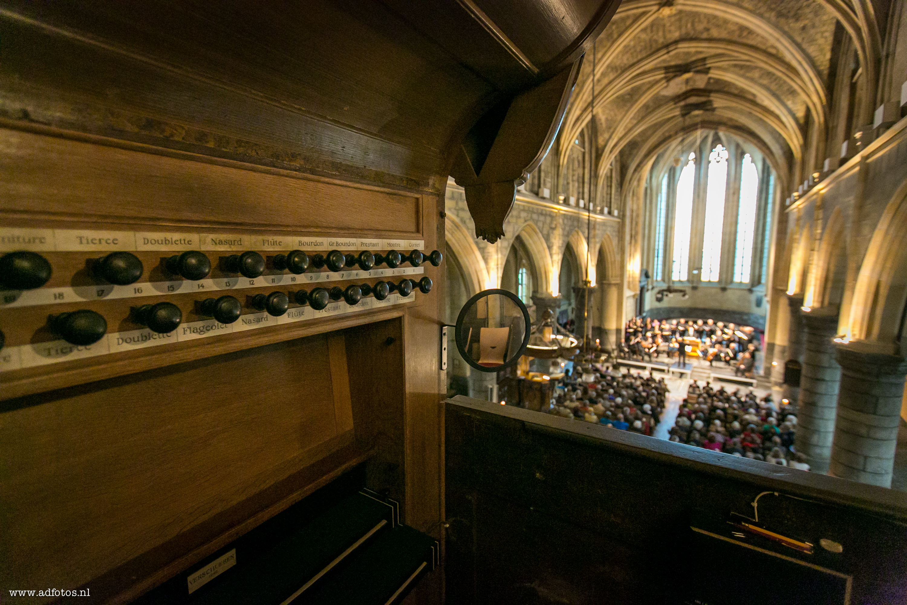 Organ st.Janskerk Maastricht